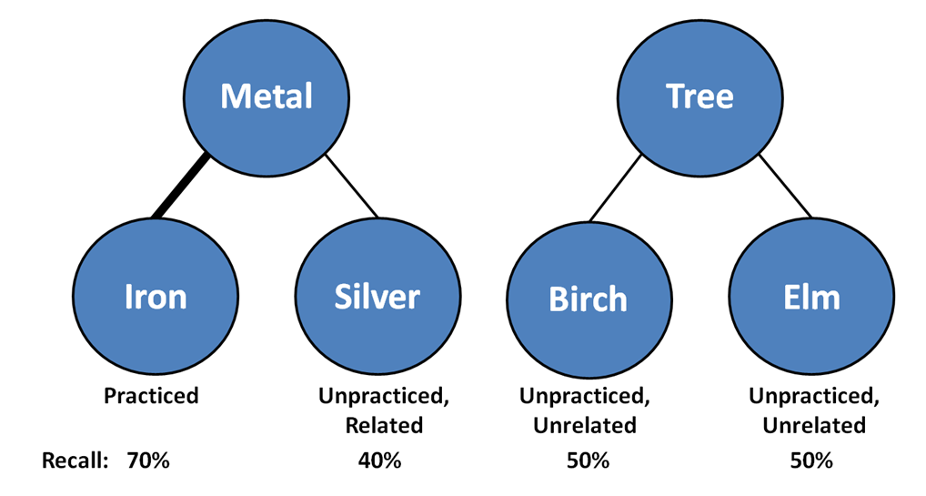 Diagram describing the different item types in the retrieval-practice paradigm. Practiced items are designated as "Rp+ items," Related items are designated as "Rp- items" and Unrelated items are designated as "NRp" items. The latter serve as a baseline.